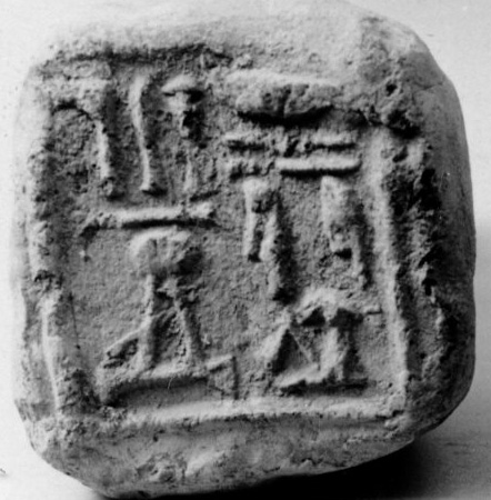 Cone, square, Nebseny, first prophet, Onuris, TT 108